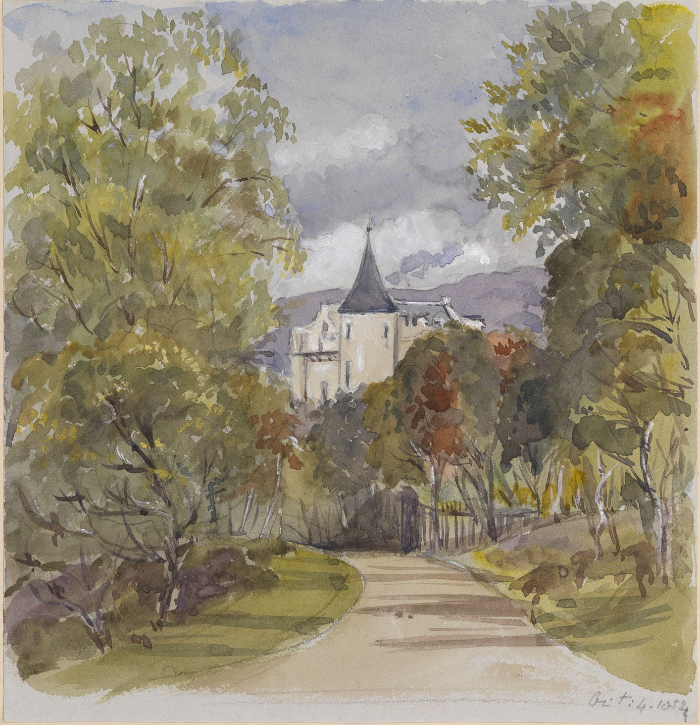 This painting by Victoria of the new Balmoral, designed by Albert to resemble his native German castles, was made in 1852 while it was being built. Sketchbook Illustration: 4 October 1852 “Balmoral Castle from the Approach (Abergeldie Side)”. Watercolour, by Queen Victoria. Inventory number: K.55 f.66 (18.5 x 17.8 cm) A watercolour showing Balmoral Castle from the East. The approach to the castle is shown in the foreground, lined with trees either side. The partial view of the castle is shown behind the trees with mountains shown in the background. Inscribed below pasted down sheet: Balmoral Castle from the Approach (Abergeldie side) Inscribed lower right: VR del: Oct: 4 - 1852. In her journal entry of 4 October 1852, Queen Victoria describes how she "had been out & near the house, ever since 10, remaining out sketching till ½ p. 12" before going deer stalking with her family.